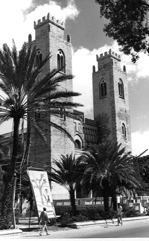 Italian-built Roman Catholic cathedral in Mogadishu, subsequently gutted by bombs in the civil war